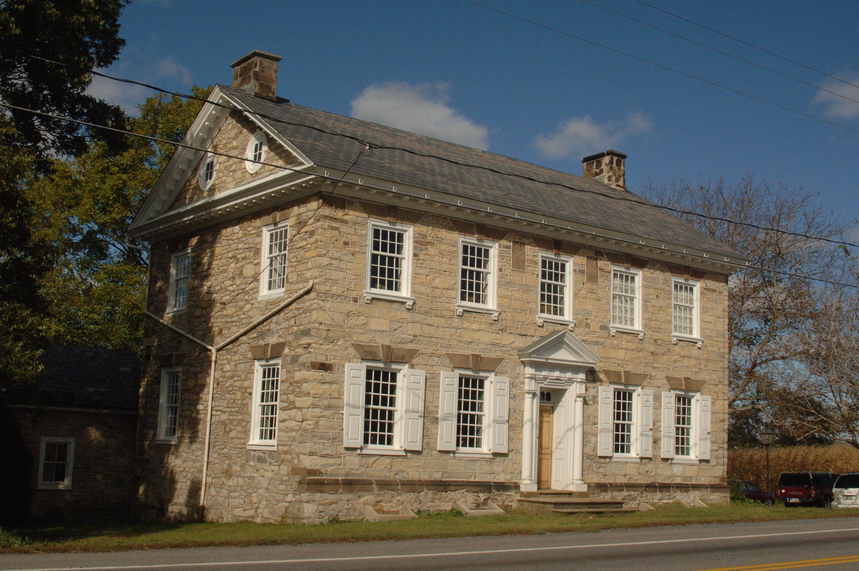 1783 LIMESTONE GEORGIAN BY JACOB HOTTENSTEIN, A DESCENDENT OF A GERMAN NOBLE FAMILY WHICH EMIGRATED TO THE UNITED STATES IN 1727. DAVID HOTTENSTEIN SERVED IN THE AMERICAN REVOLUTION. DAVID’S SON BECAME THE FIRST IN A LONG LINE OF MEDICAL DOCTORS PRACTICING IN BERKS COUNTY. FAMILY INSTRUMENTAL IN FOUNDING OF KUTZTOWN UNIVERSITY. STAYED IN FAMILY UNTIL 1976 WHEN IT BECAME THE PROPERTY OF BERKS COUNTY